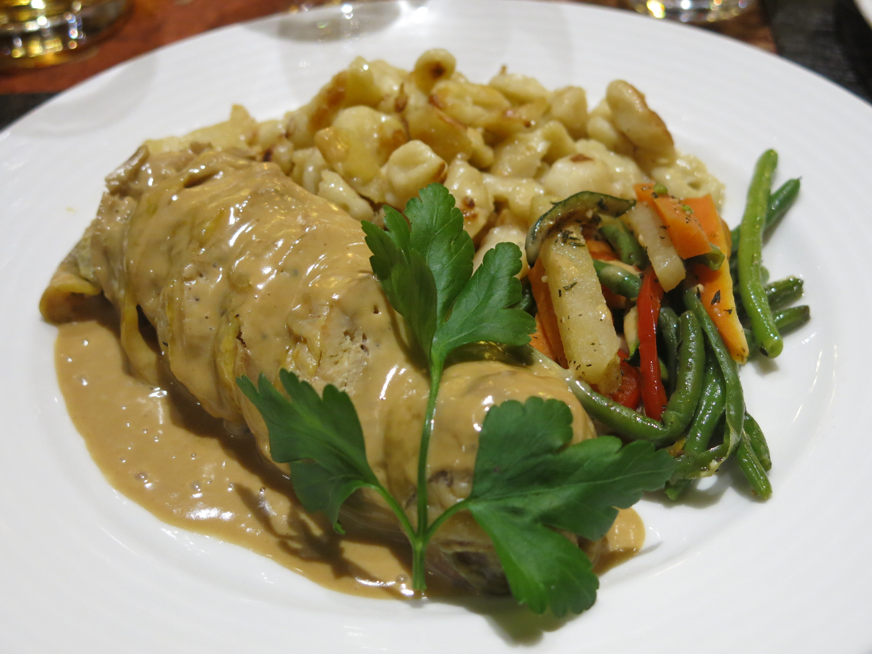 Poultry ballotine with riesling wine. Restaurant Au Dauphin in Strasbourg (Bas-Rhin, France).